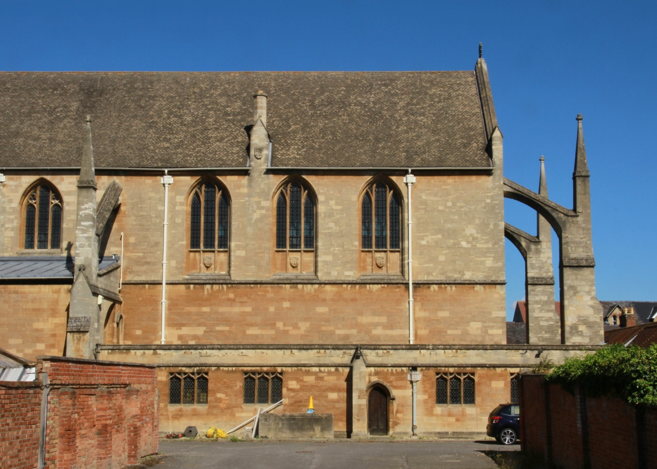 Chancel of the parish church of St John the Evangelist, Iffley Road, Oxford, England, seen from the southeast